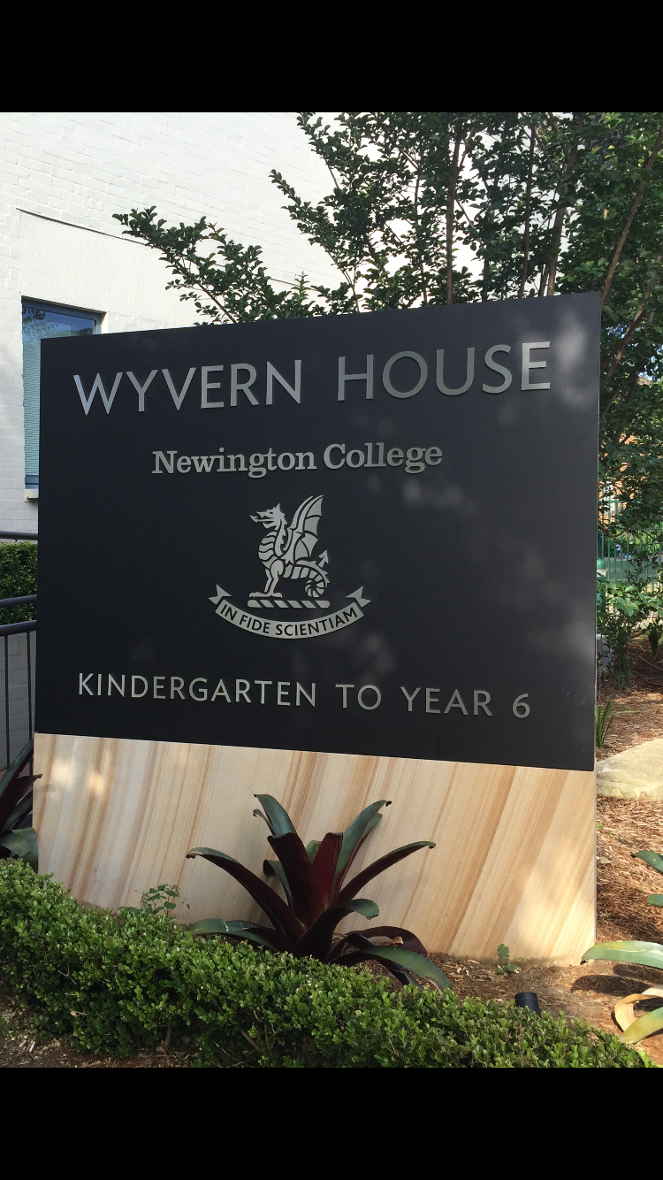 Entrance signage to Wyvern House, Sydney, NSW.